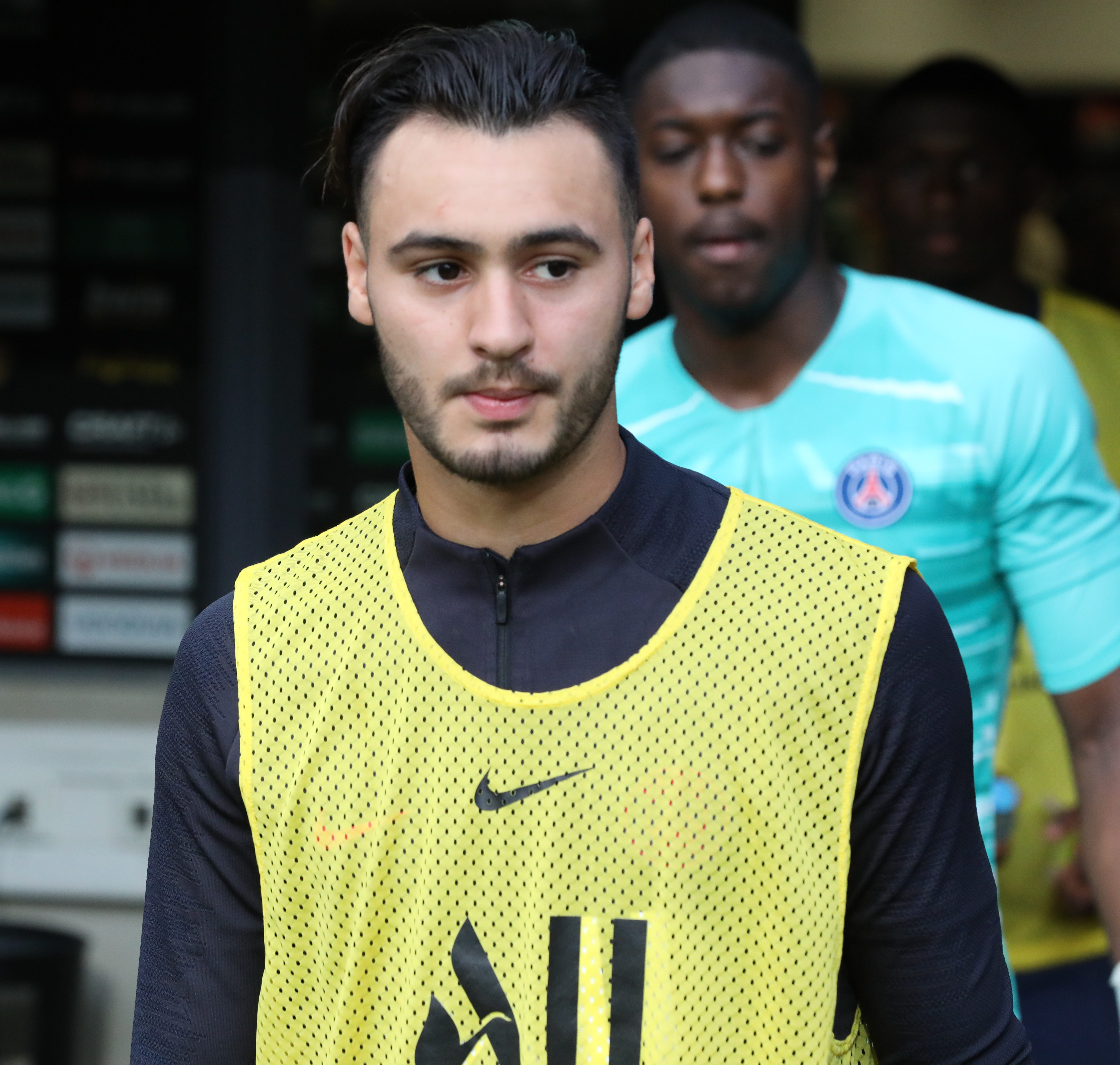 Test game, 17th July 2019: SG Dynamo Dresden vs. Paris Saint-Germain 1:6 (0:3)